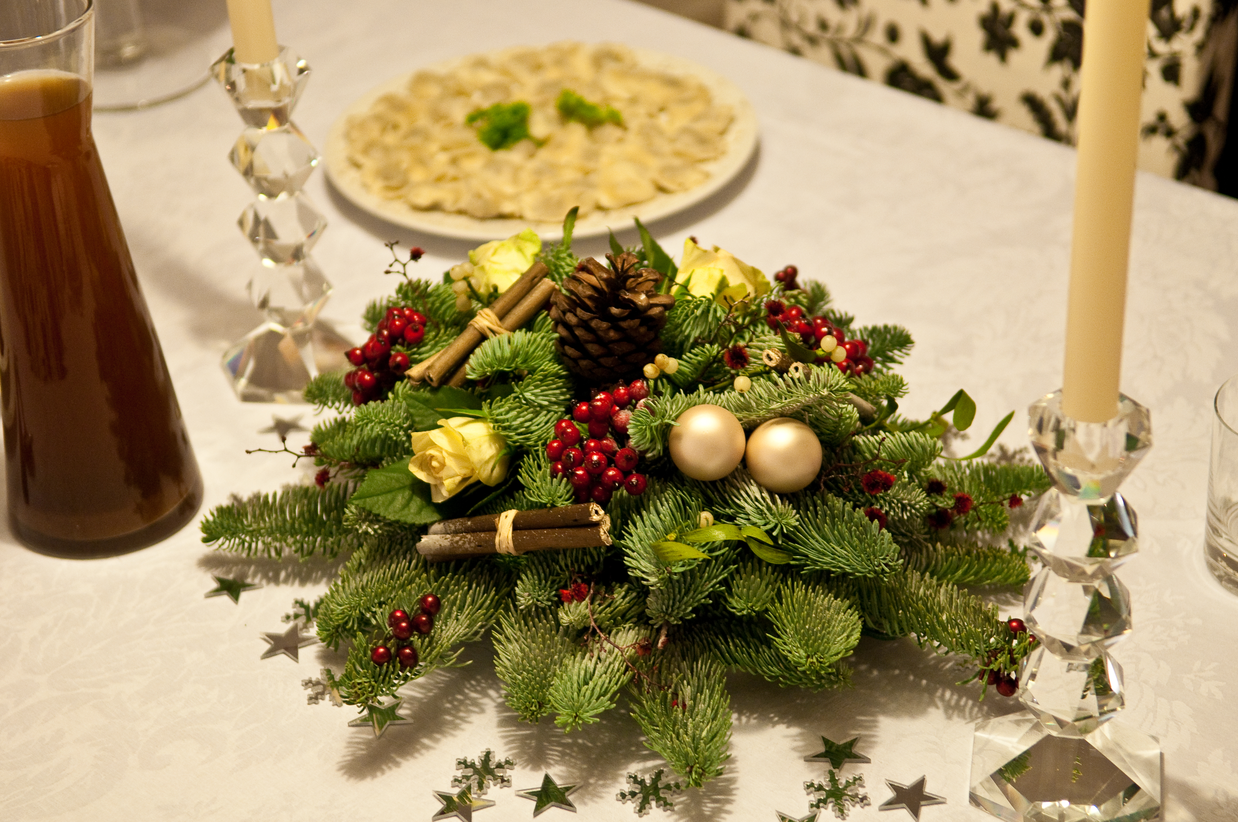 Christmas table decoration